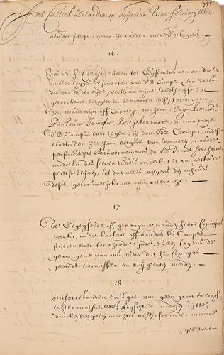 1662 Treaty between Koxinga and Dutch/ The Hague National Bureau of Archives, Netherlands.